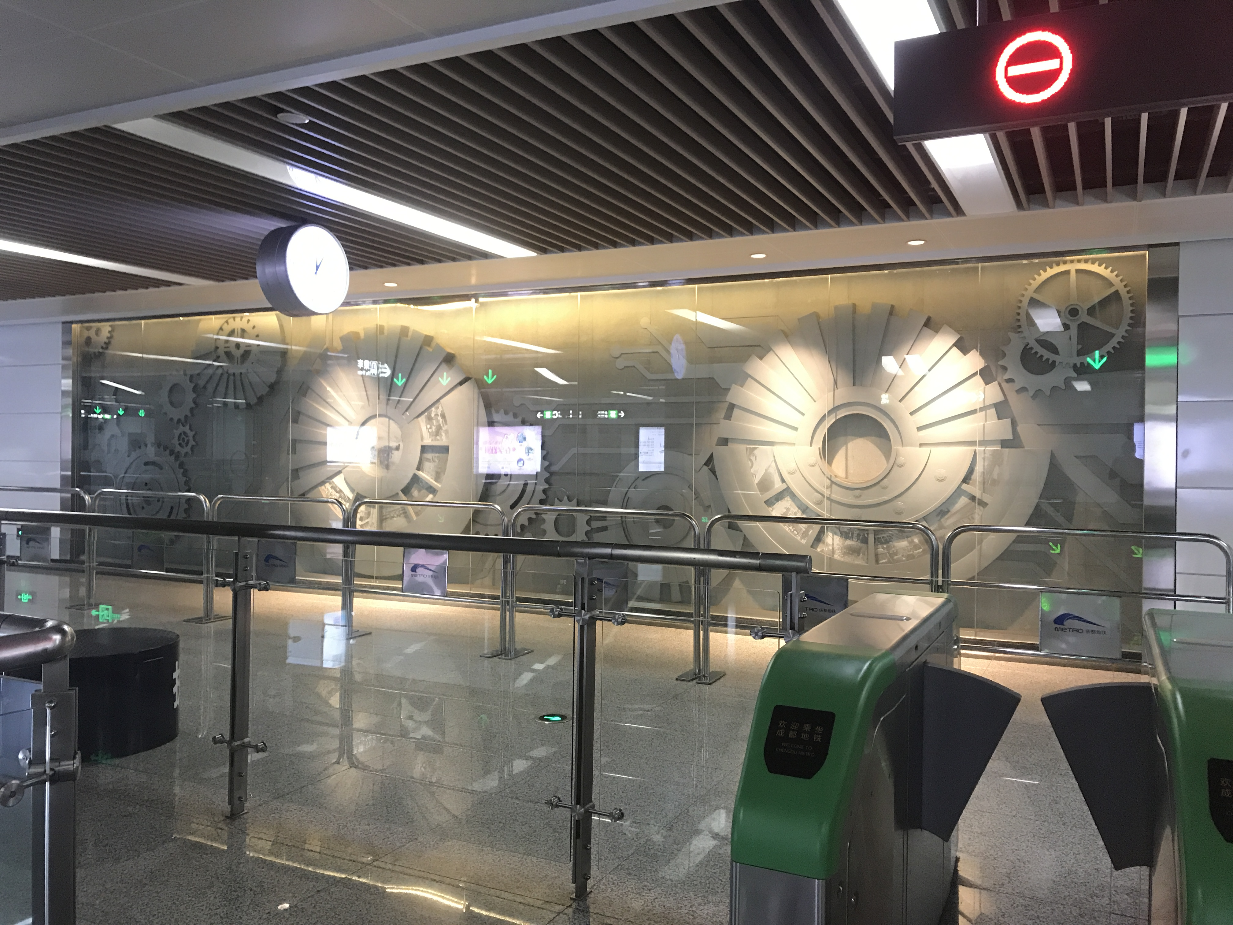 Hall of Shuangqiao Road Station, Chengdu Metro